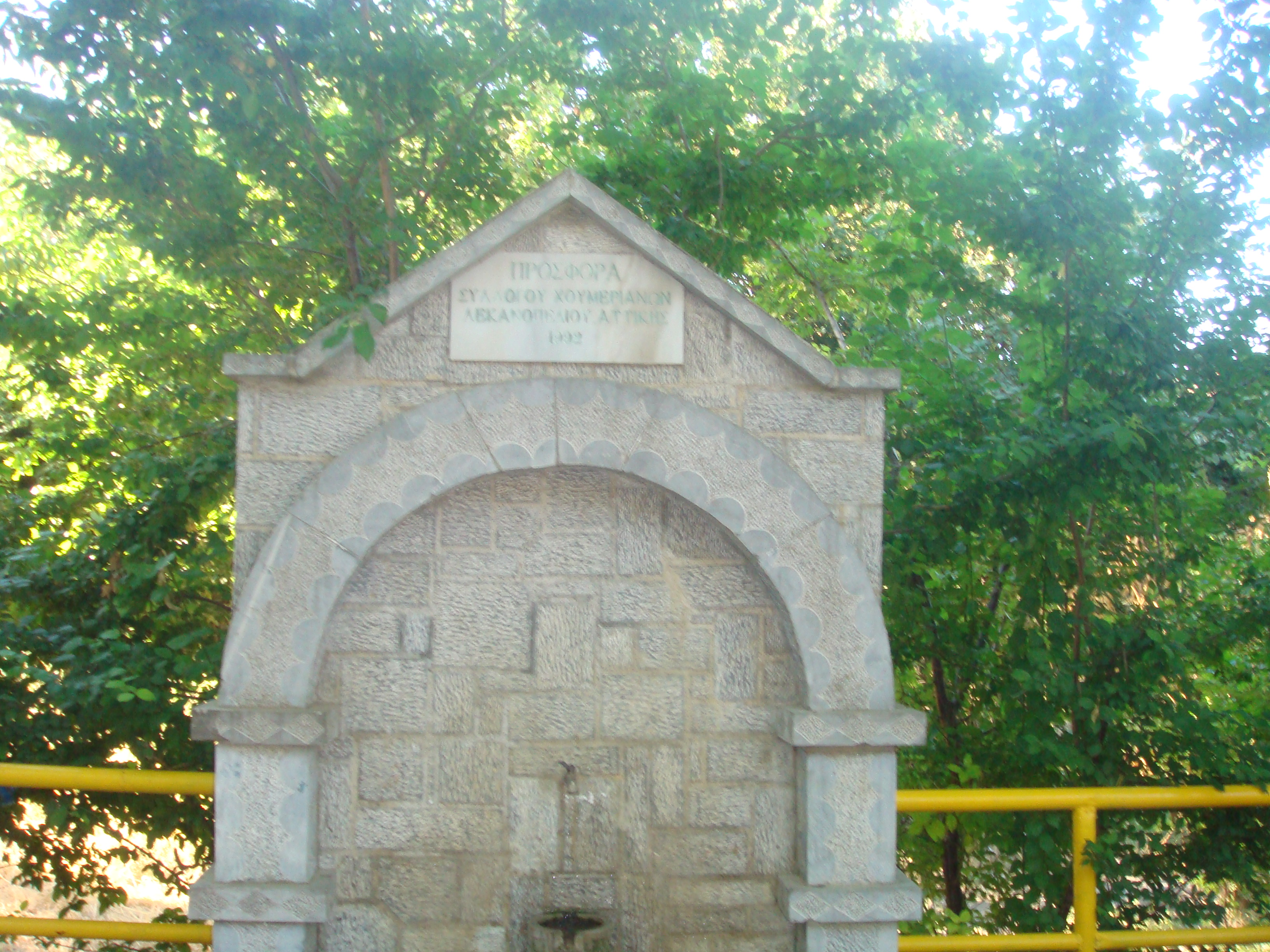 A fount in Houmeri, in Iraklion prefecture.